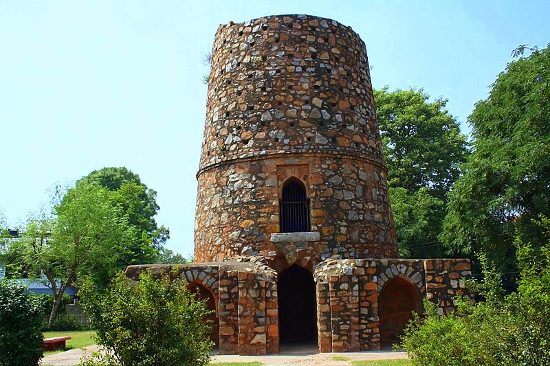 Chor Minar No. 289 Vol III Chor Minar or 'Tower of Thieves' is a 13th century minaret with 225 holes,[1] situated just off Aurobindo Marg in the Hauz Khas area, in New Delhi.[2][3]. It was built under the rule of Alauddin Khilji[4], of the Khilji dynasty (1290–1320) in the thirteenth century.[5] According to local legends, it was a 'tower of beheading', where the severed heads of thieves were displayed on spear through its 225 holes, to act as a deterrent to thieves[2][6], though some historian suggest that the Khilji king slaughtered a settlement of Mongol people, nearby, to stop them from joining with their brethren in another Mongol settlement in Delhi, the present day locality of 'Mongolpuri'. During the raid of Ali Beg, Tartaq and Targhi (1305), 8,000 Mongol prisoners were executed and their heads displayed is the towers around Siri[